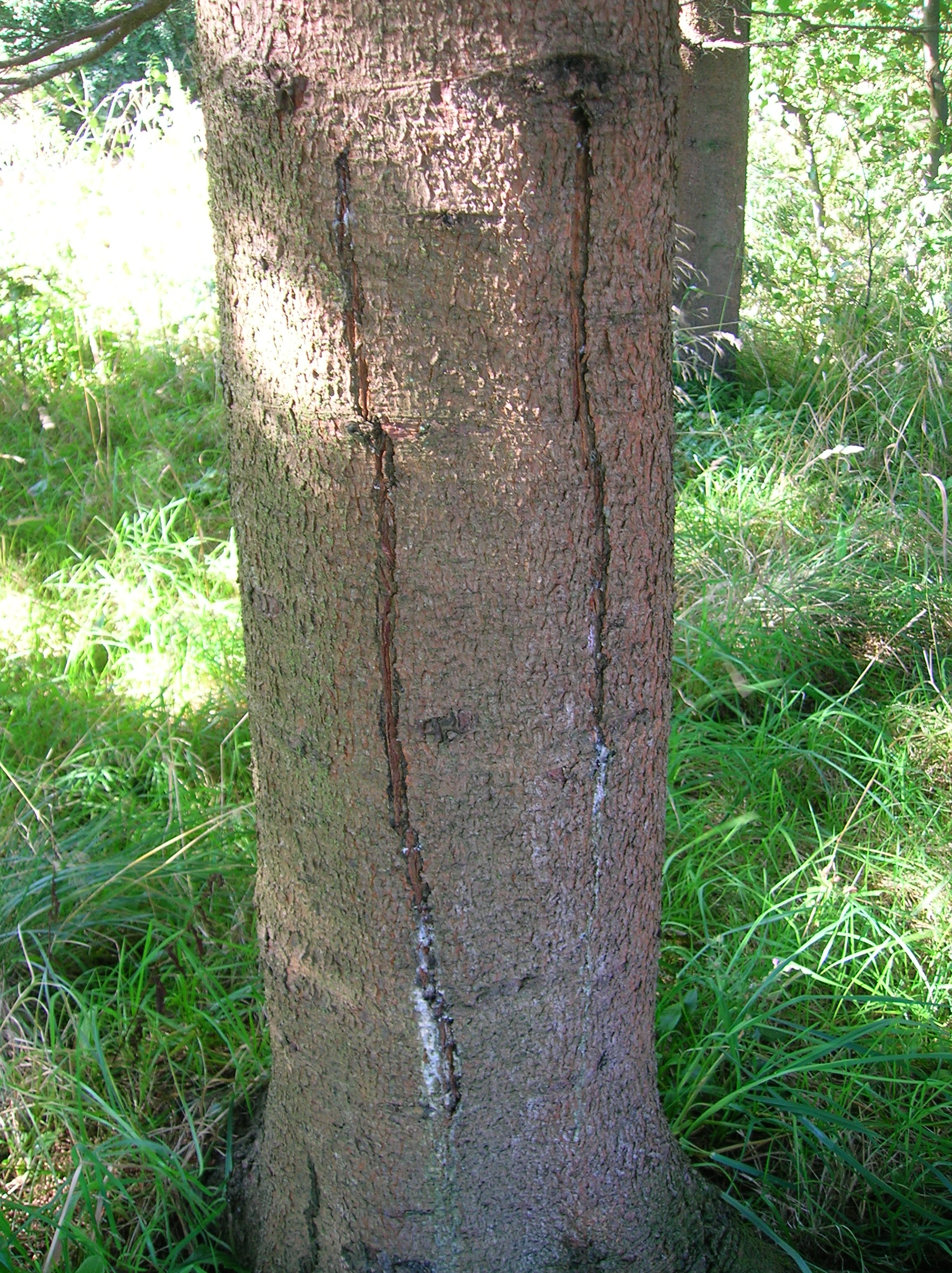 Frost crack on a Norway Spruce at Eglinton Park, North Ayrshire, Scotland.